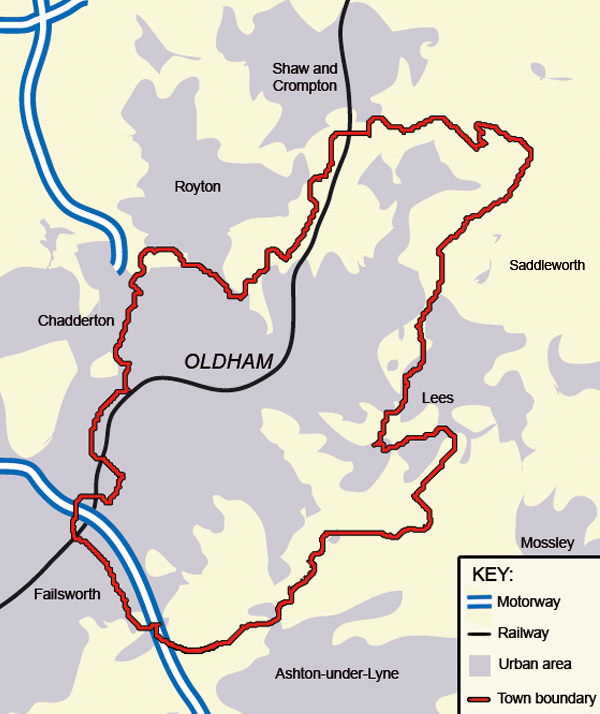 A map of Oldham, Greater Manchester with Key. Made in Adobe Illustrator with Adobe Photoshop.